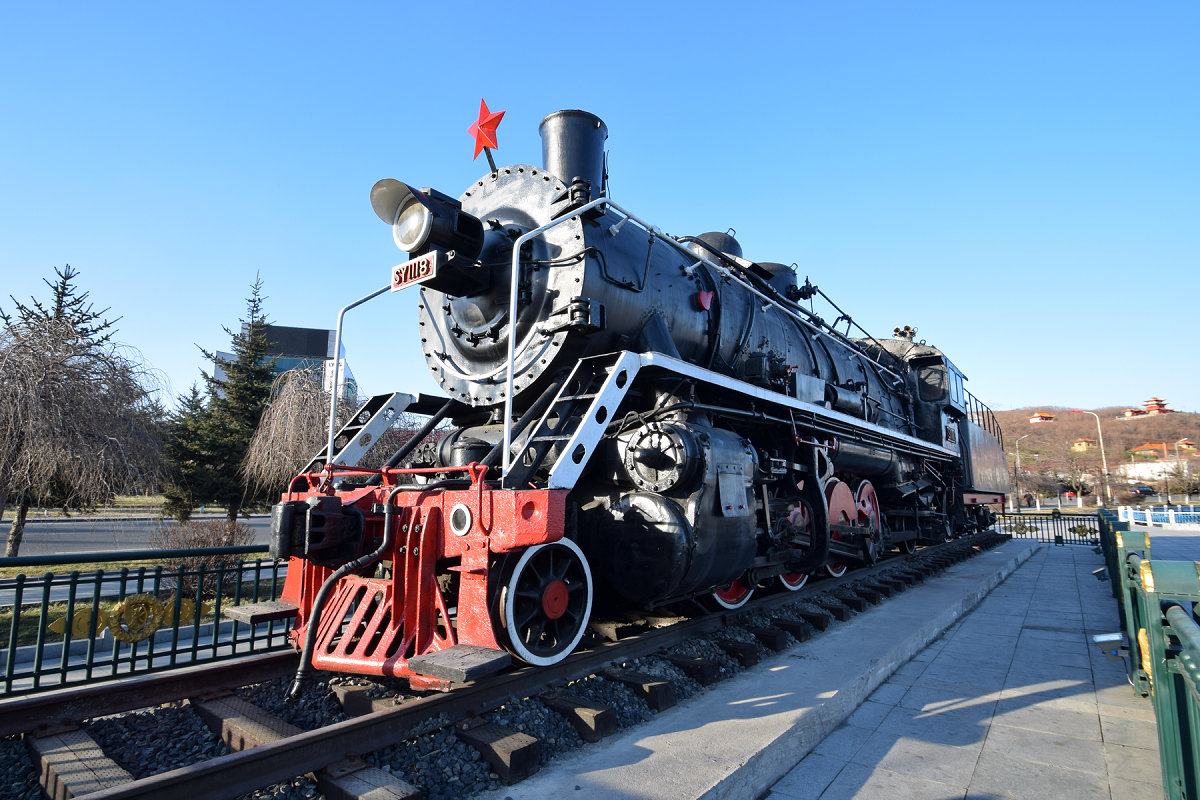 "City built from trains" China Railway SY1118 Locomotive at Beihai Park, Suifenhe